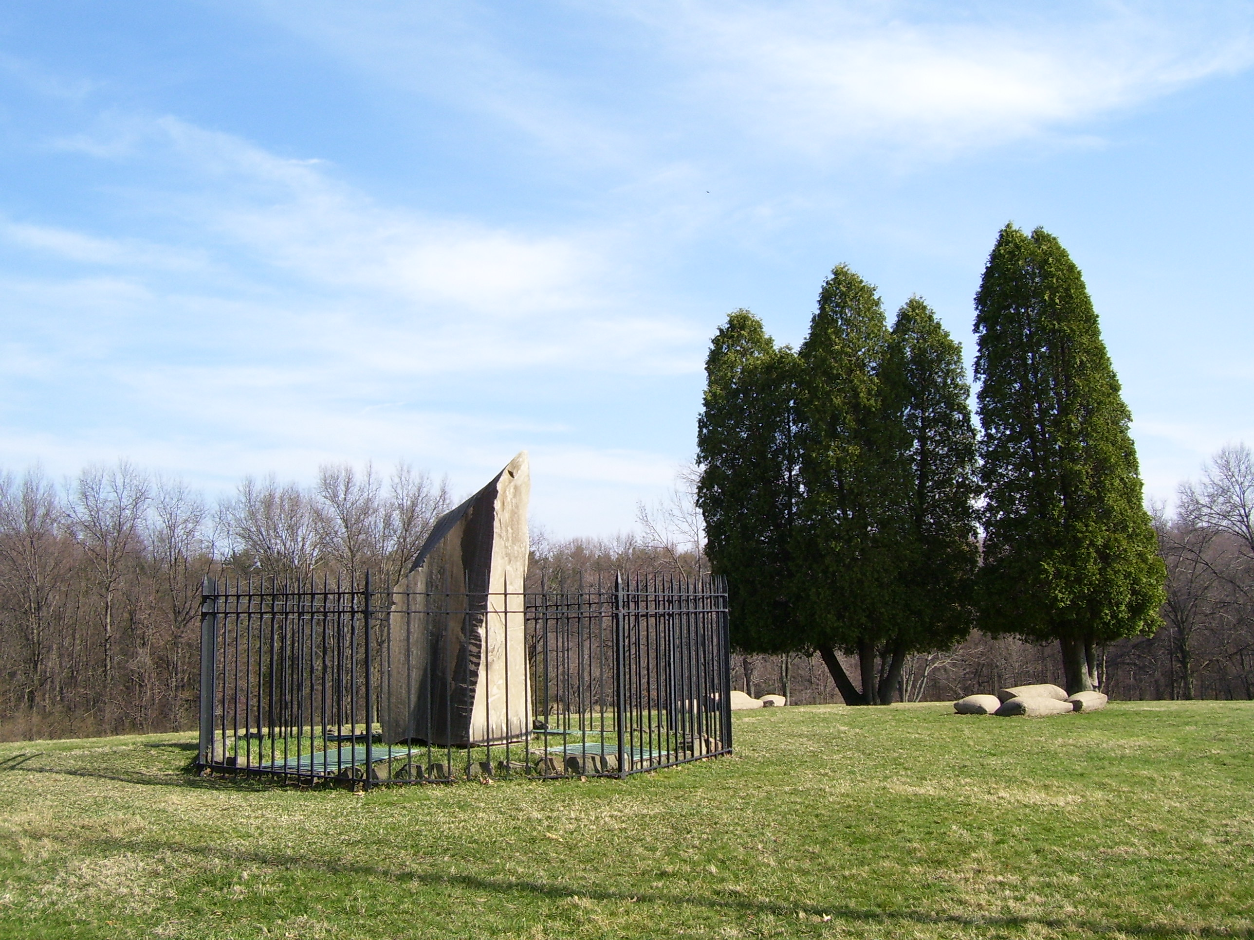 Battle of Bushy Run monument. Photographed April 2006.